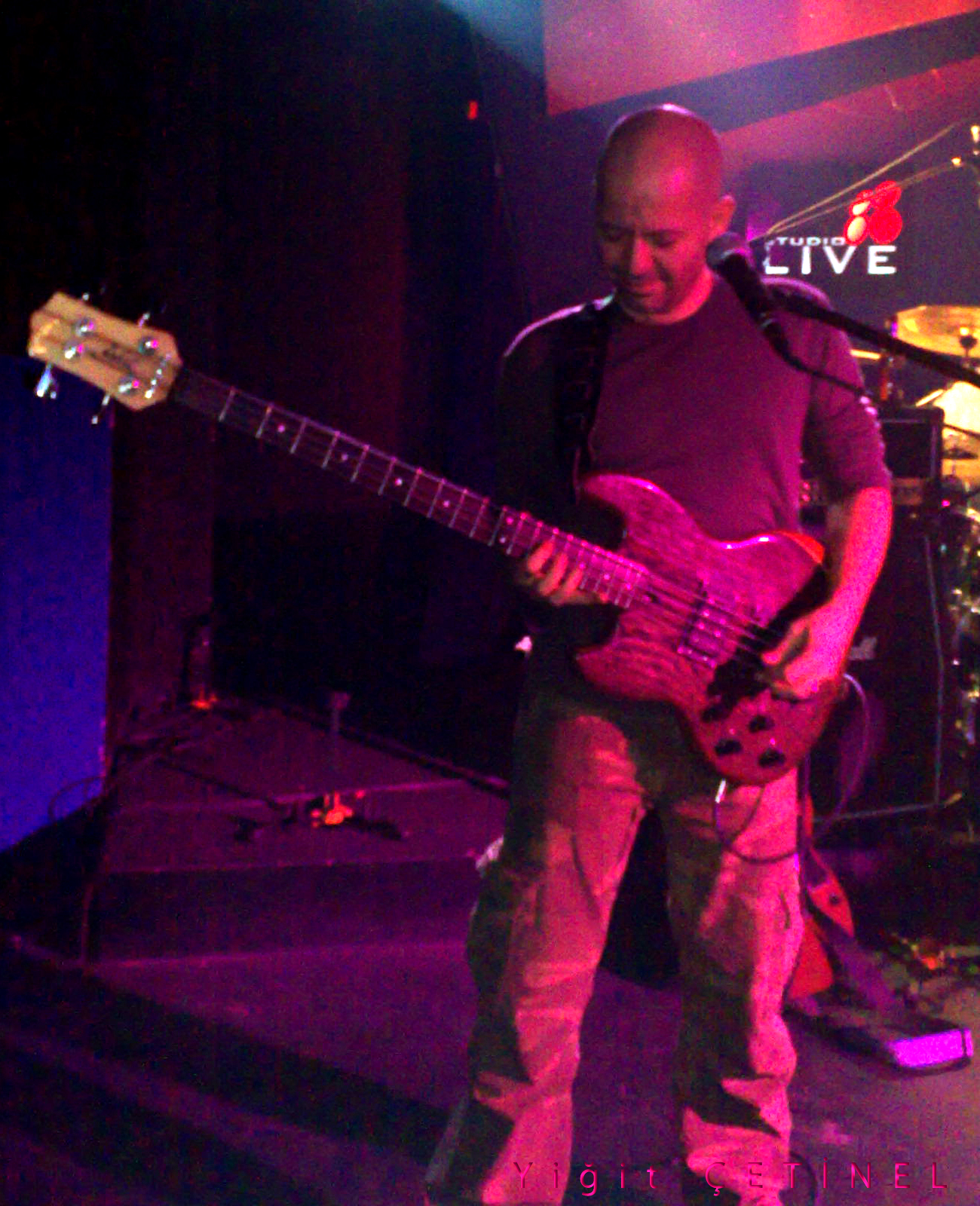 Turkish guitarist Kerem Tüzün at Studio Live.